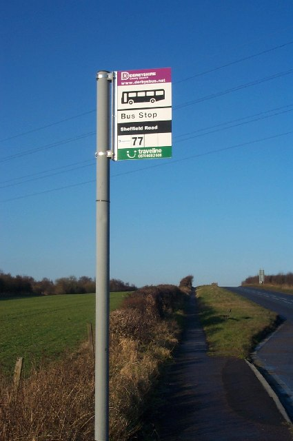 Bus Stop, Sheffield Road. Bus Stop on Sheffield Road between Creswell and Clowne.